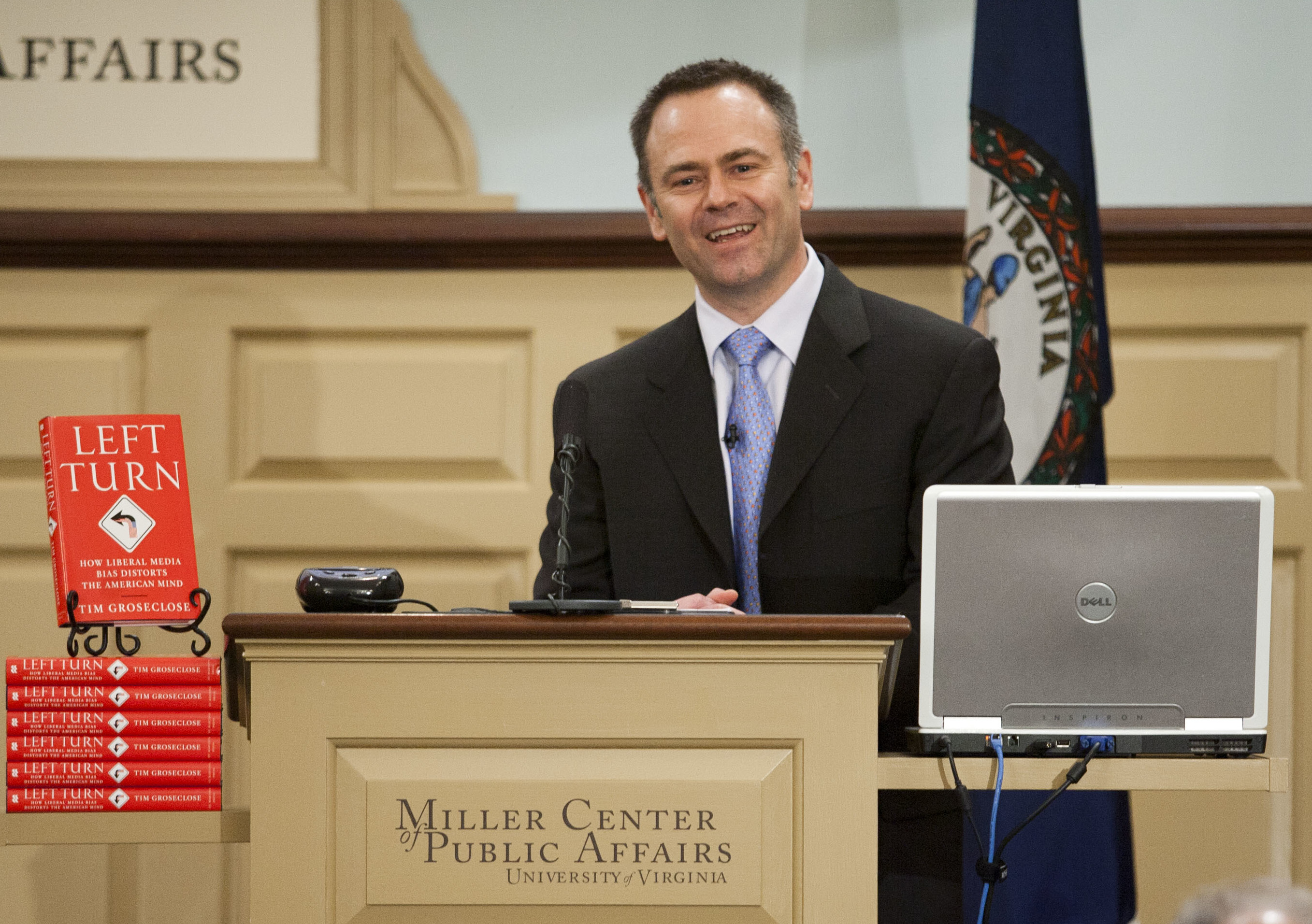 TIM GROSECLOSE, a professor of political science and economics at the University of California, Los Angeles, constructs precise quantitative measures of the slant of television, radio, and print media. He estimates the SQ (slant quotient) of various news outlets. In his book, "Left Turn: How Liberal Media Bias Distorts the American Mind," Groseclose reports the results of his research, including: (1) that nearly all mainstream media outlets have a liberal bias; (2) that many so-called conservative outlets are in fact less tilted toward the right than the typical mainstream outlet is tilted toward the left; and (3) the bias has shifted the average American’s PQ (political quotient) significantly to the left. Held November 28, 2011. Miller Center, Charlottesville, VA. For more information, visit .